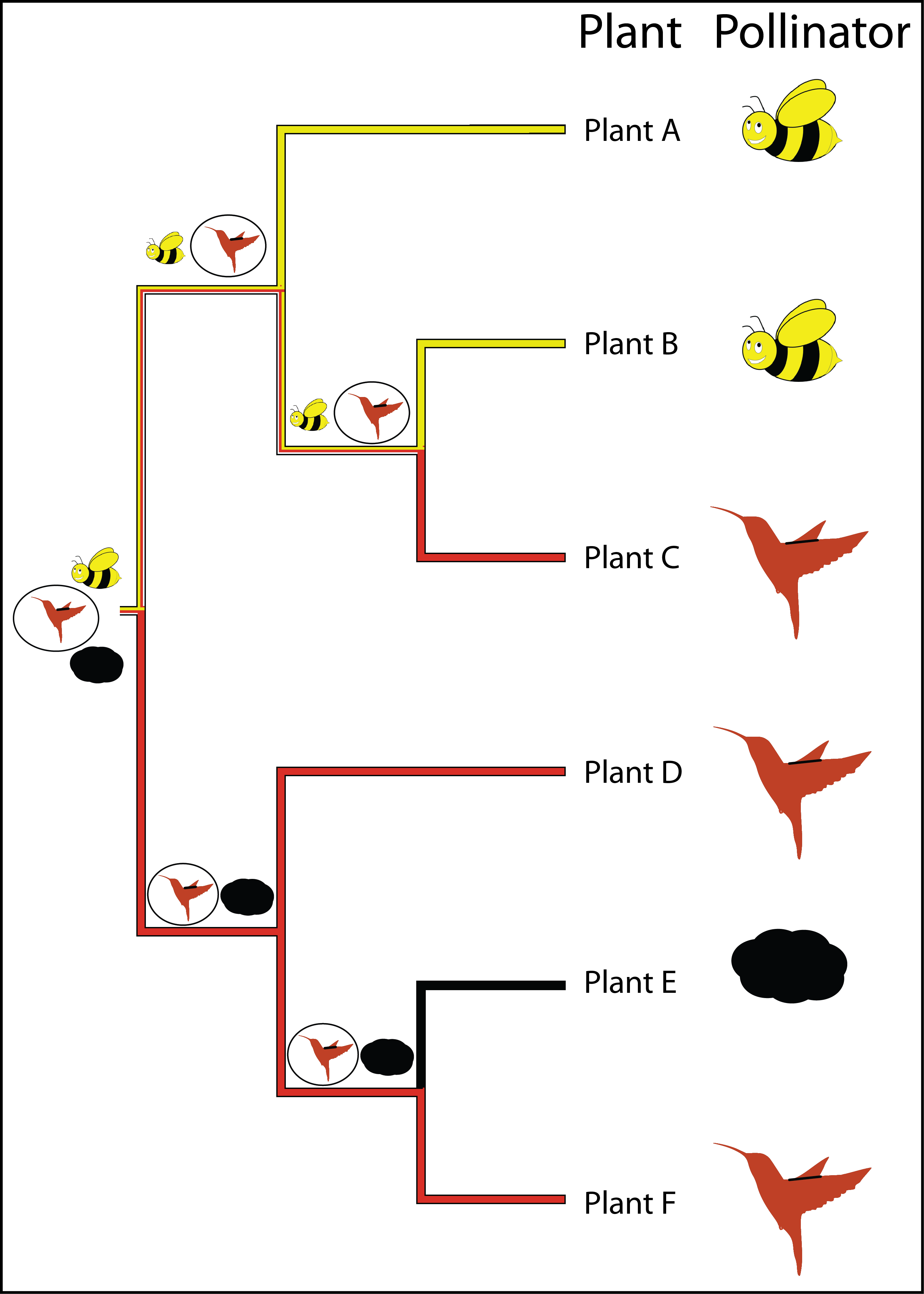 Graphical illustration of ancestral reconstruction by maximum parsimony.